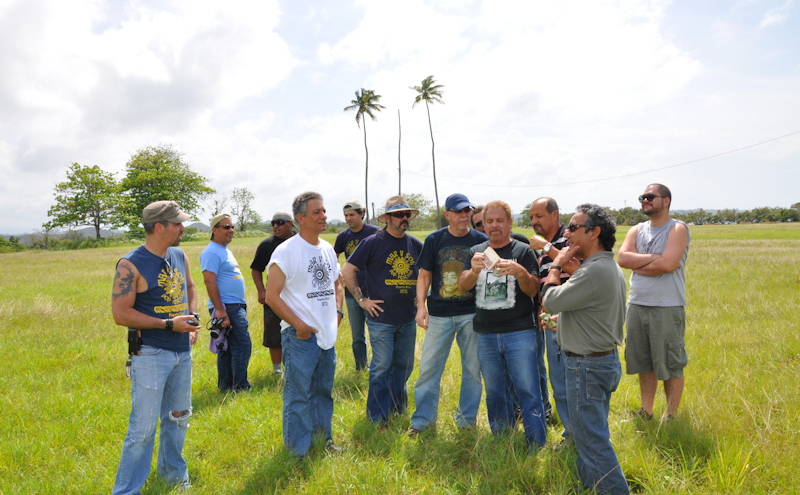 Mar Y Sol attendees visit site 40 yrs later. In this picture they area walking through what was one of the camping areas during the festival.